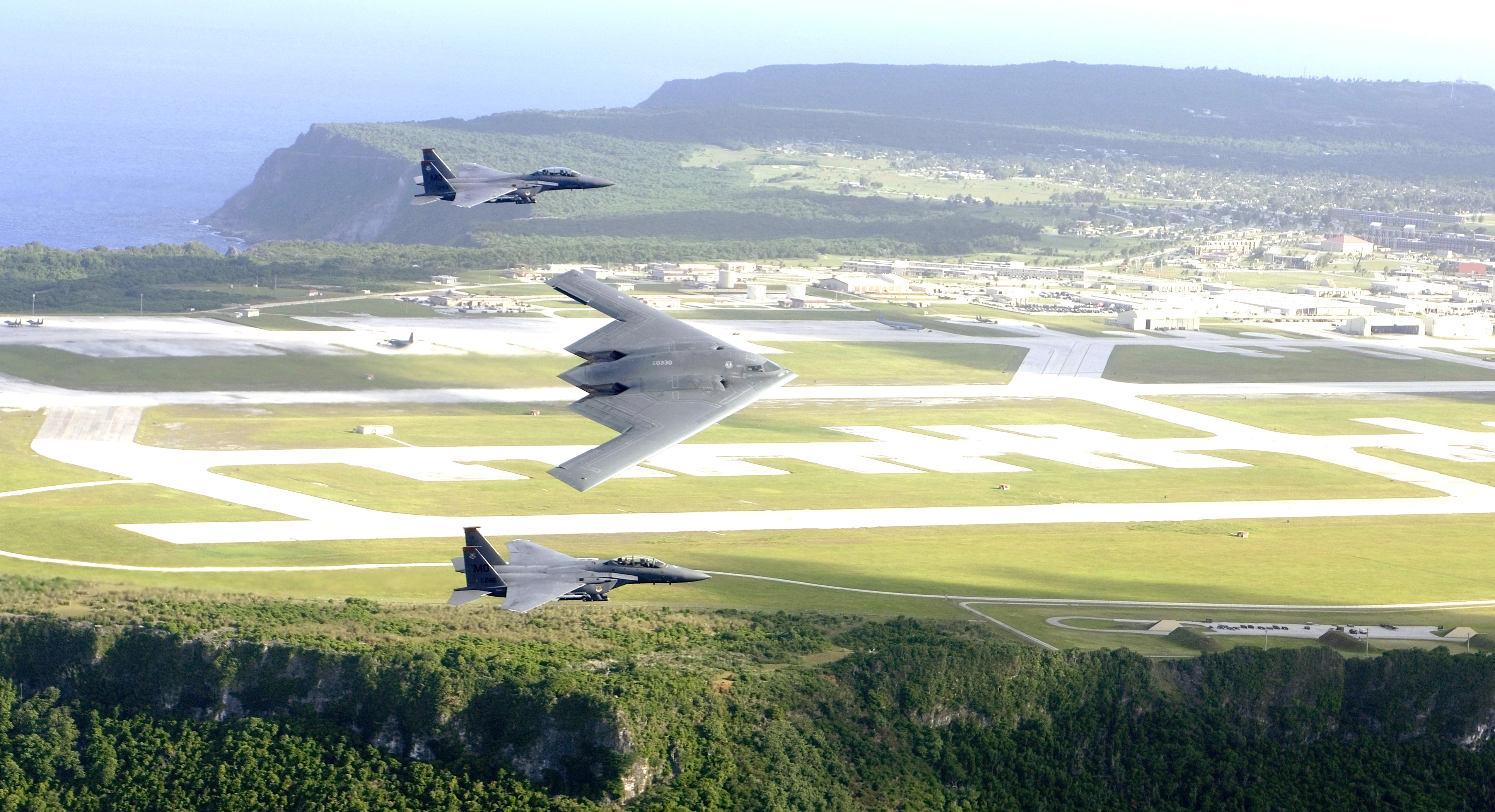 ANDERSEN AIR FORCE BASE, Guam -- F-15E Strike Eagles and a B-2 Spirit bomber fly in formation over the base. The Strike Eagles are with the 391st Expeditionary Fighter Squadron from Mountain Home Air Force Base, Idaho. The bomber is from the 325th Expeditionary Bomb Squadron from Whiteman AFB, Mo. (U.S. Air Force photo by Tech. Sgt. Cecilio Ricardo)